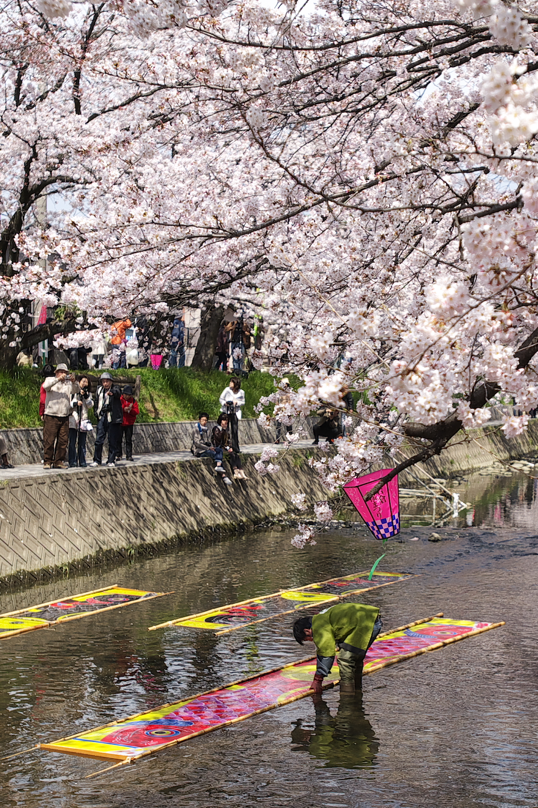 Cherry blossoms in Gojo-river